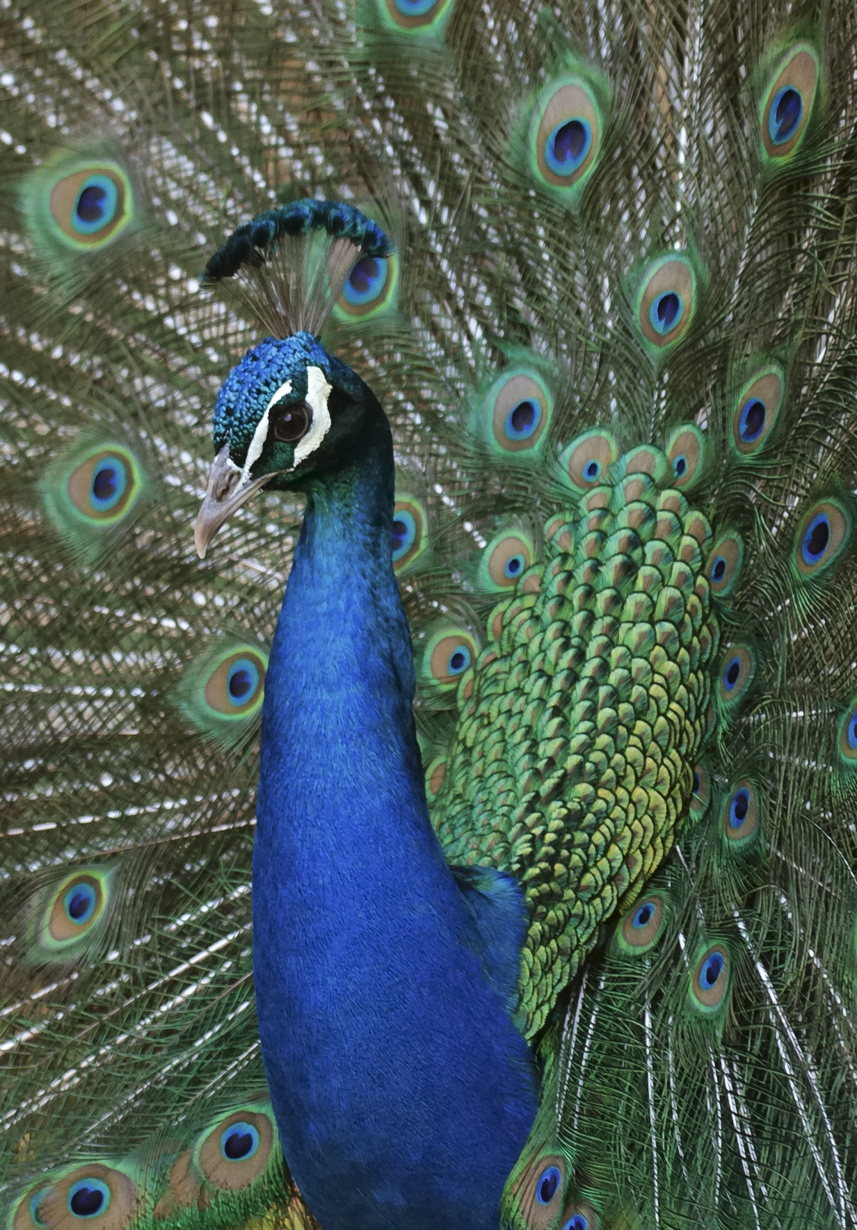 A Peafowl flaring his feathers in botanic garden of Toulouse.